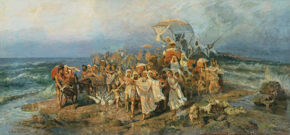 This is picture of polish painter Wilhelm Kotarbiński Переход евреев через Чёрмное море (Cross jews across Yam Suph (Red sea))